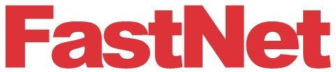 Logo FastNet